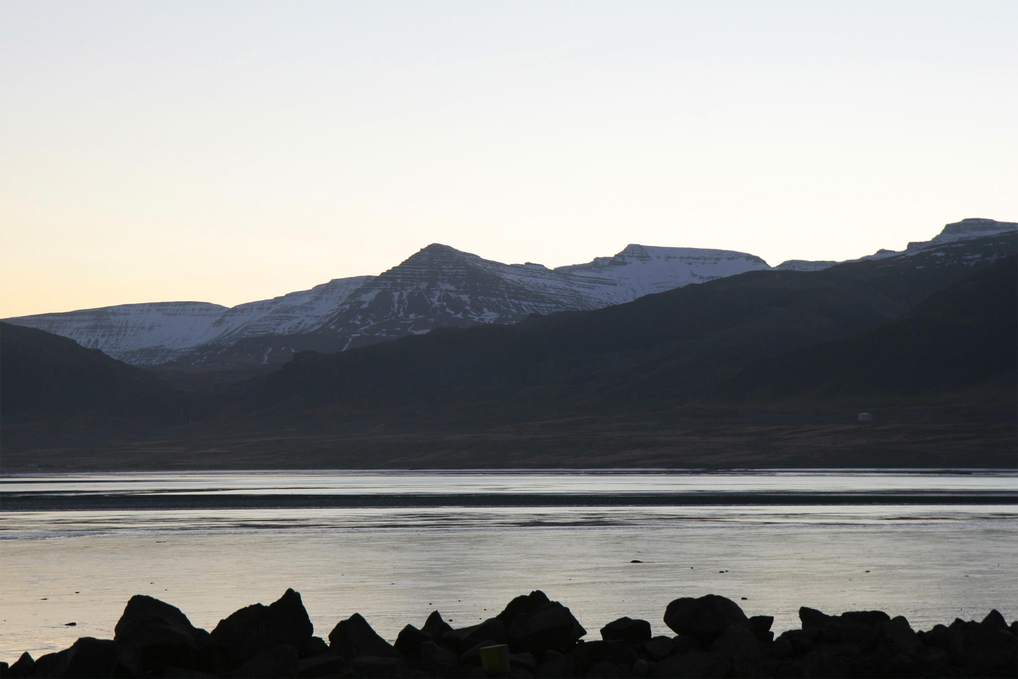 Southeast from Borgarnes toward Skarðsheiði, November 21 09:30 Iceland, November 2007 Photo by me user debivort (or friend, with permission given to upload and license freely).